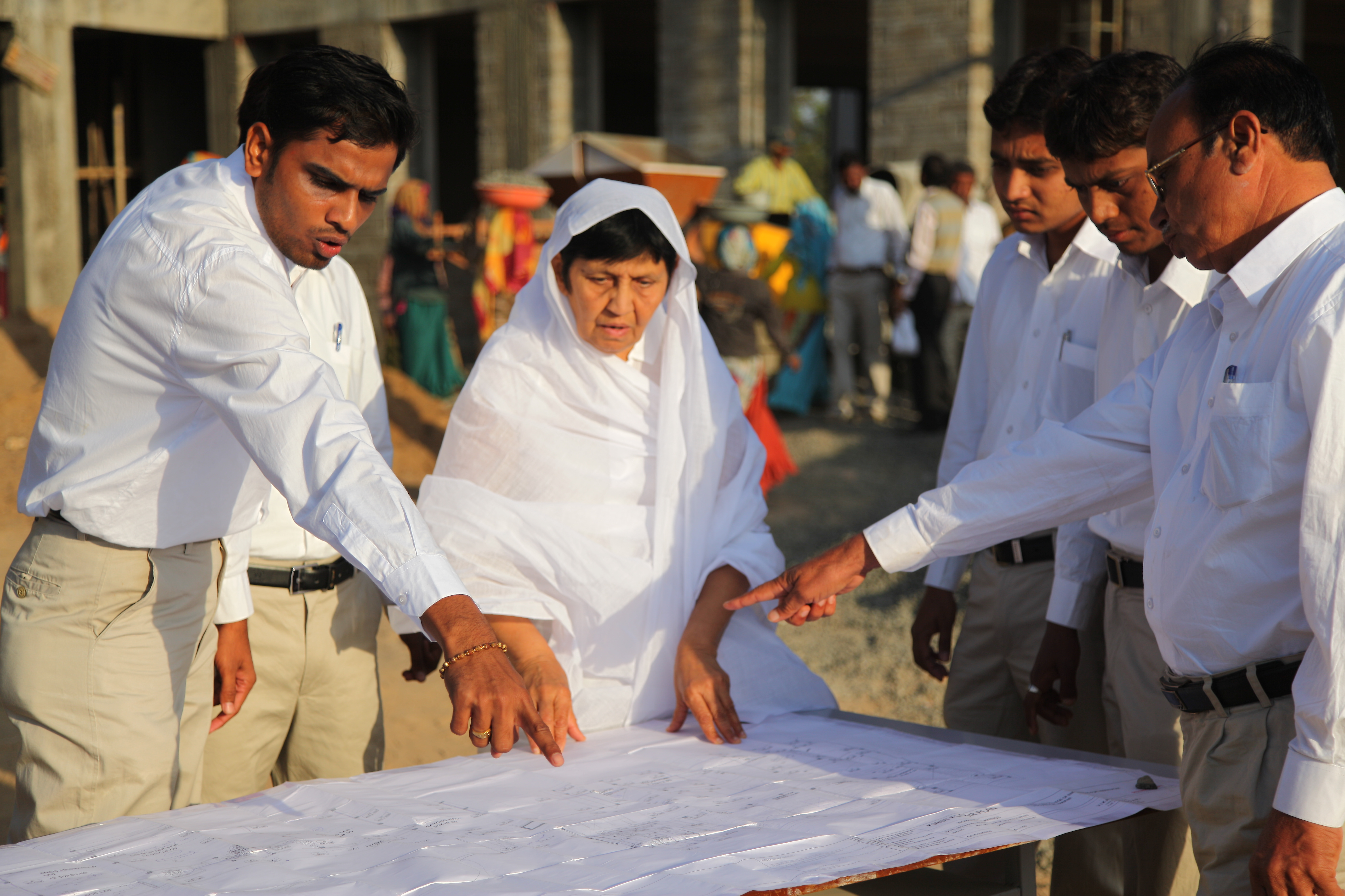 Acharya Shri Chandanaji in the decision-making process of the construction of 'Divine World' at Palitana.